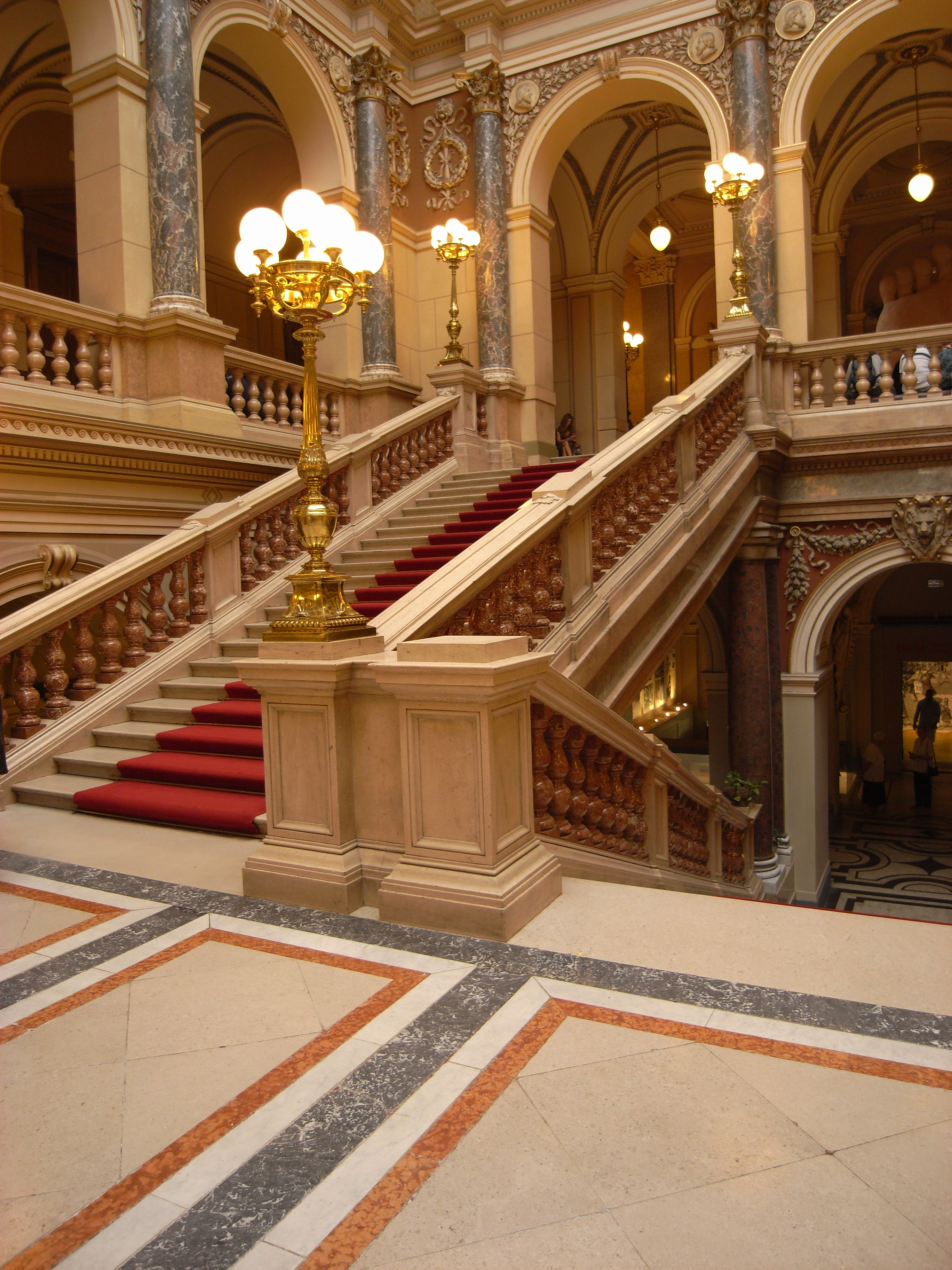 National museum, main staircase (Prague Czech Republic)